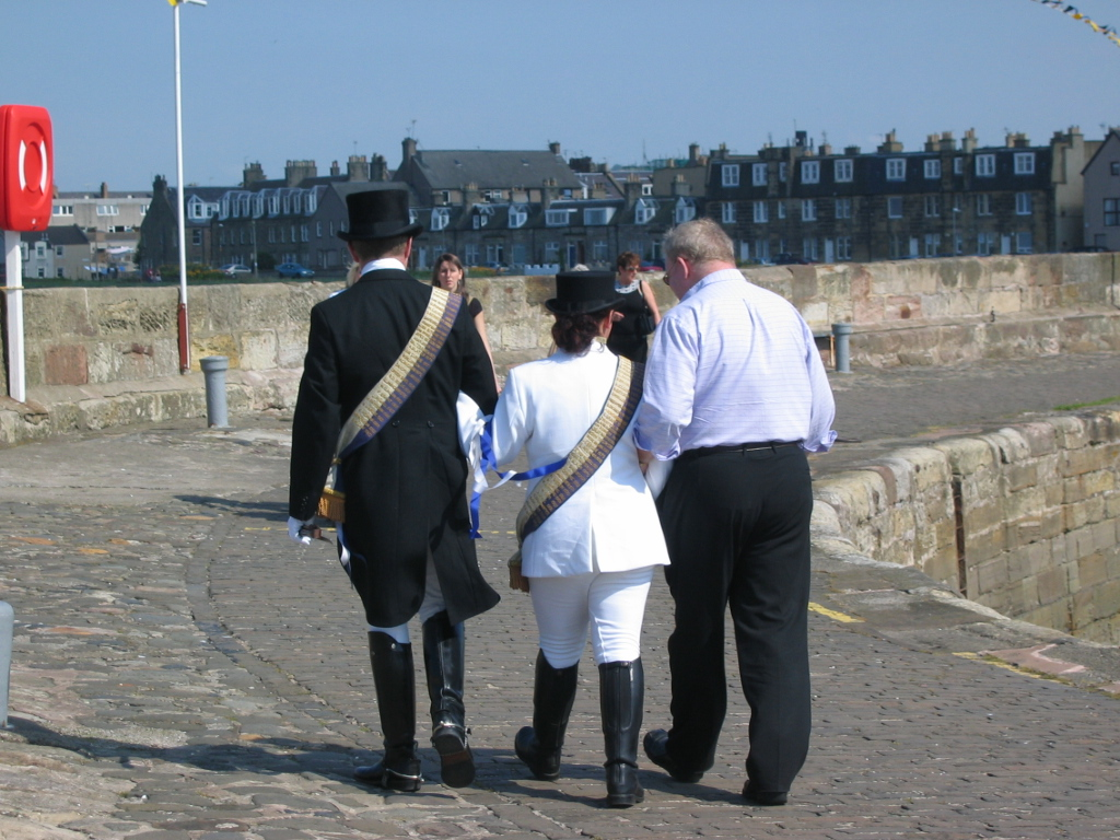 Honest Lad & Lass, Musselburgh, East Lothian, Scotland